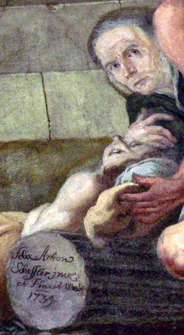 Self-portrait of Felix Anton Scheffler.